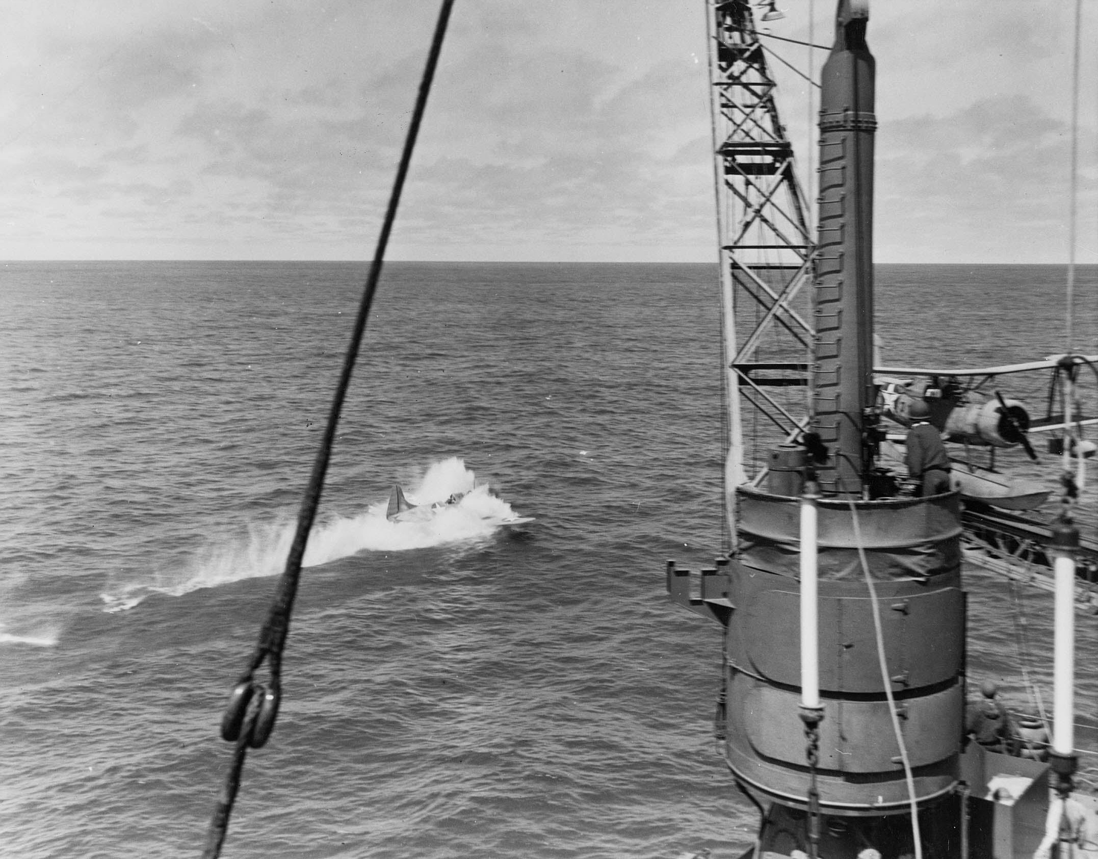 U.S. Navy LCdr Maxwell F. Leslie, commanding officer of Bombing Squadron 3 (VB-3), ditches his Douglas SBD-3 Dauntless next to the heavy cruiser USS Astoria (CA-34) after successfully attacking the Japanese carrier Soryu during the Battle of Midway, 13:48 hrs, 4 June 1942. Leslie and his wingman Lt(jg) P.A. Holmberg ditched near Astoria due to fuel exhaustion, after their parent carrier USS Yorktown (CV-5) was under attack by Japanese planes when they returned. Leslie, Holmberg, and their gunners were rescued by one of the cruiser's whaleboats. Note one of the cruiser's Curtiss SOC Seagull floatplanes on the catapult.